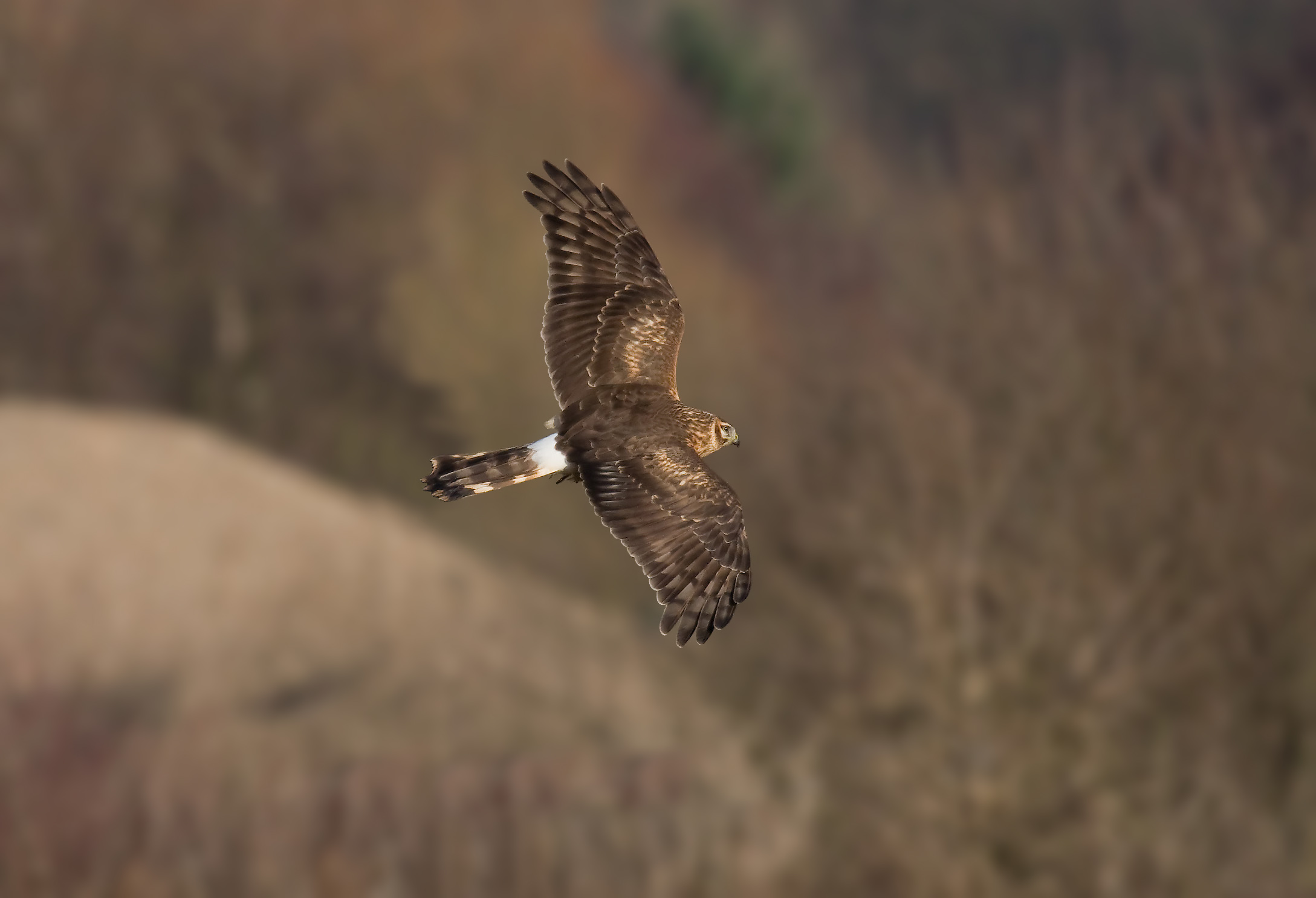 female (!) Hen Harrier first cy